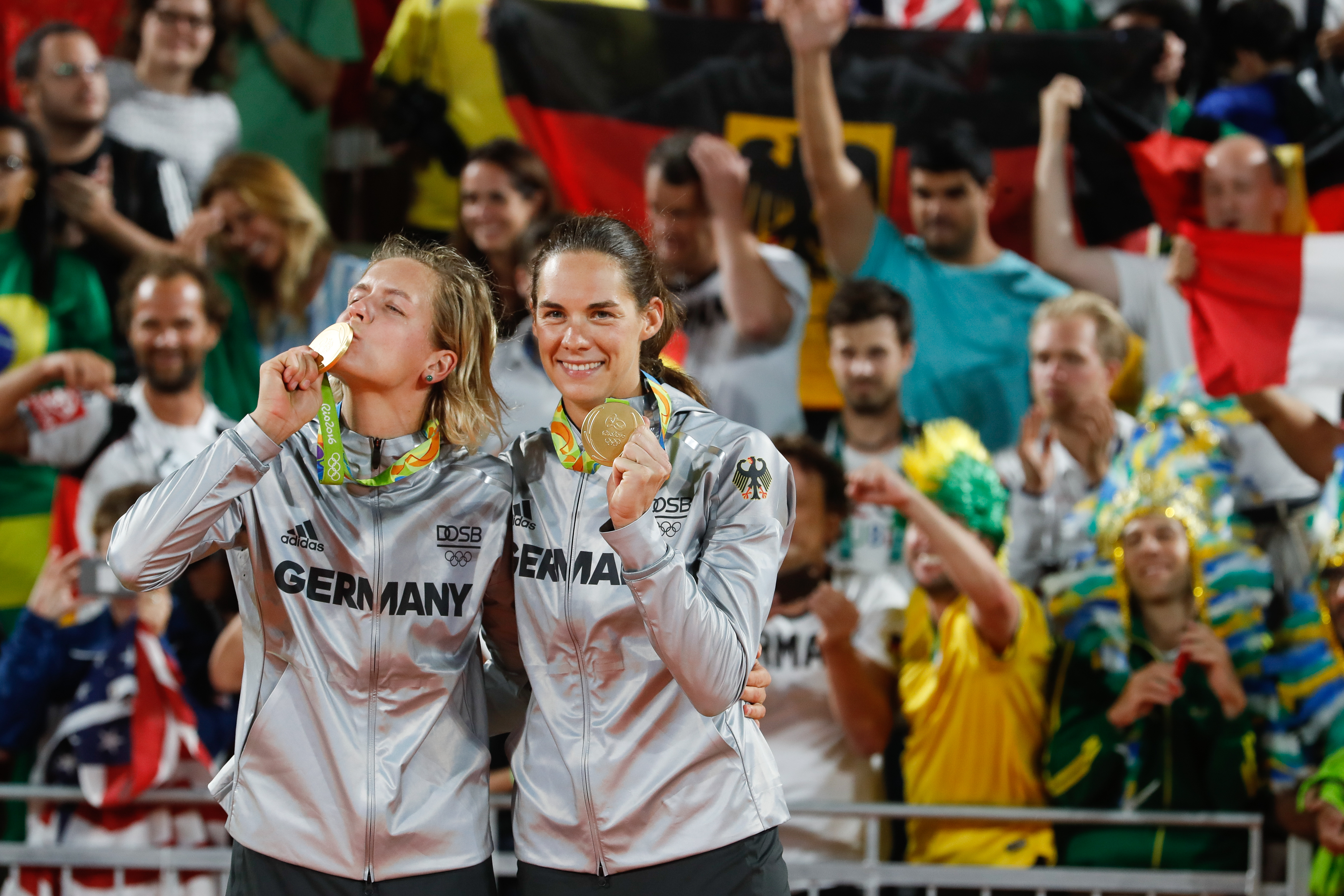 Rio de Janeiro - As alemãs Ludwig e Walkenhorst, levam ouro na final do vôlei de praia, contra as brasileiras, Ágatha e Bárbara, nos Jogos Olímpicos Rio 2016 ( Fernando Frazão/Agência Brasil)